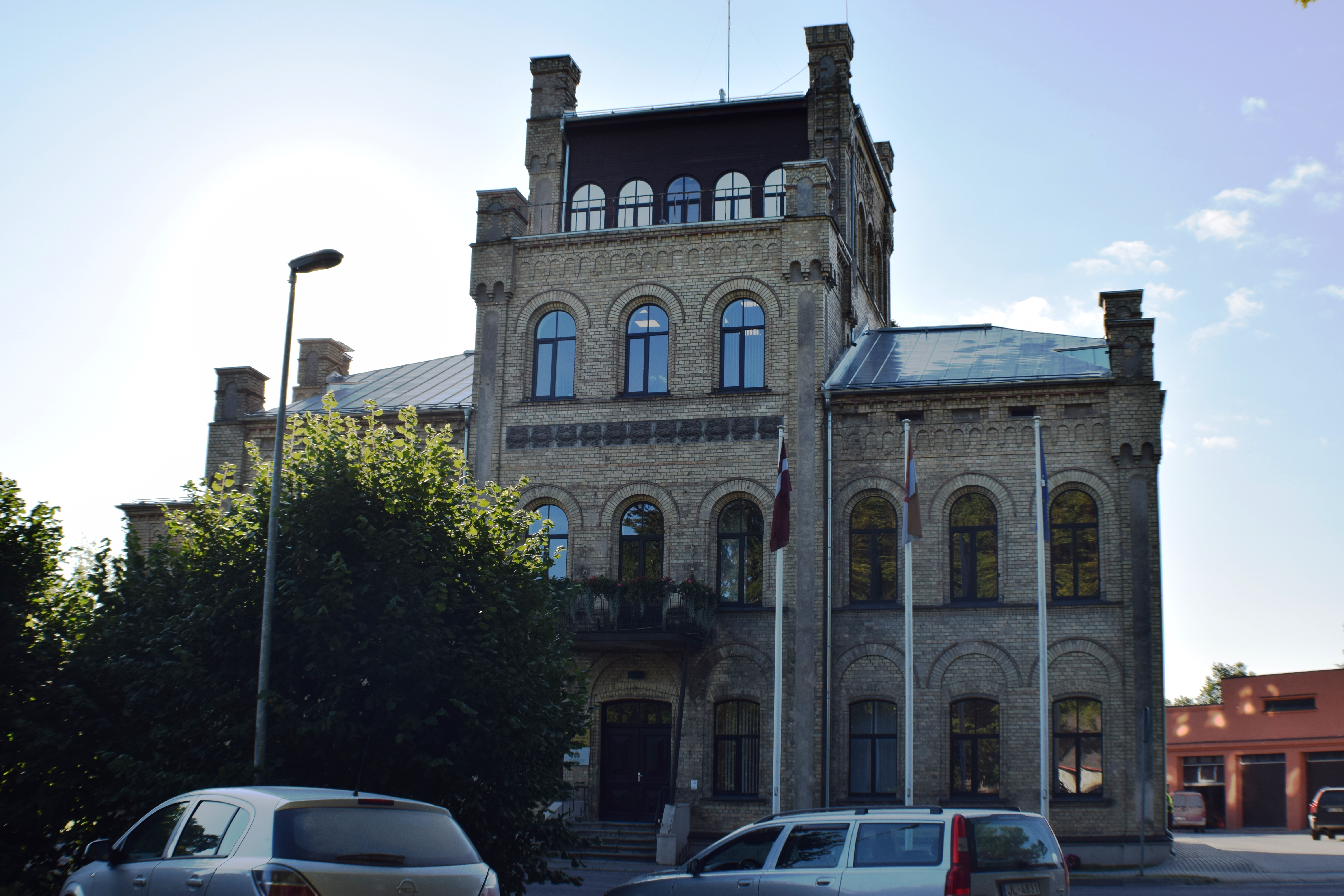 Auce (Auces novads)